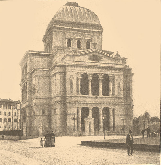 Illustration from Brockhaus and Efron Jewish Encyclopedia (1906—1913)